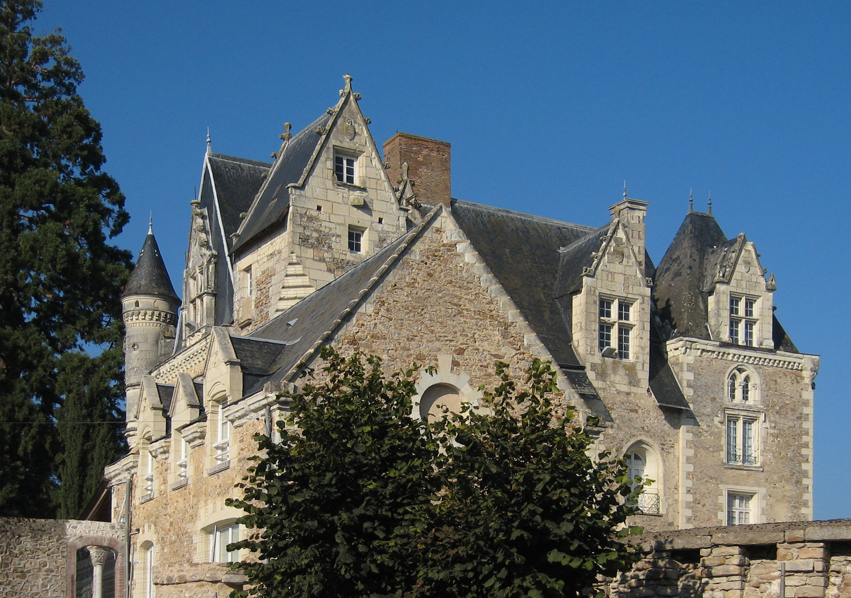 Castle of Villevêque, located in the village of Villevêque in the county of Maine-et-Loire/France.